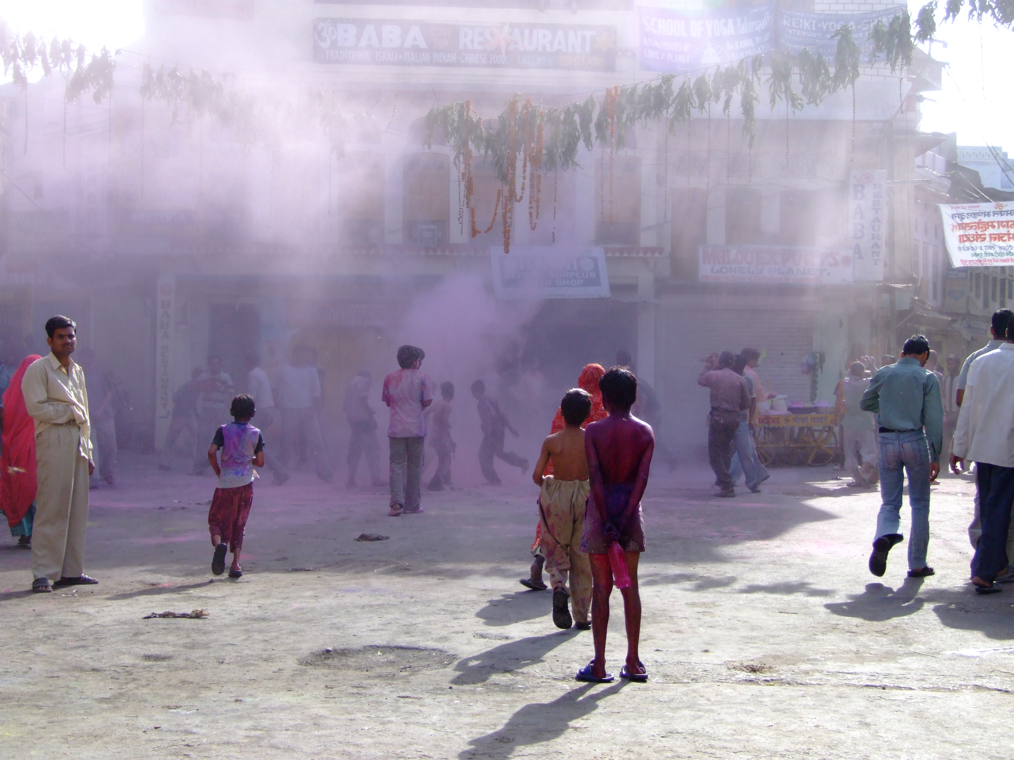 Gulal clouds as children play Holi at Pushkar, Rajasthan.